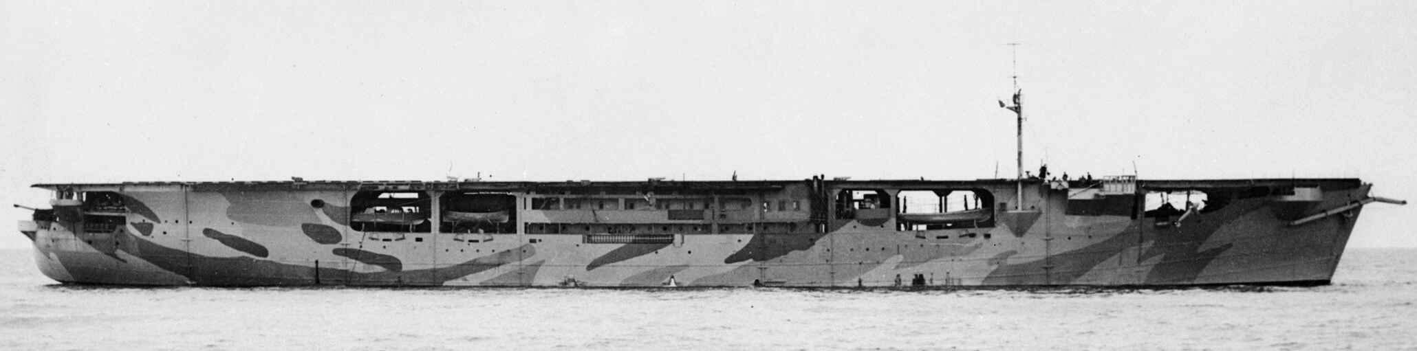 British escort aircraft carrier HMS Audacity (D10), originally Norddeutscher Lloyd cargo ship Hannover, 1941.